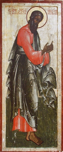 Saint Andrew, Russian icon from first quarter of 18th cen.